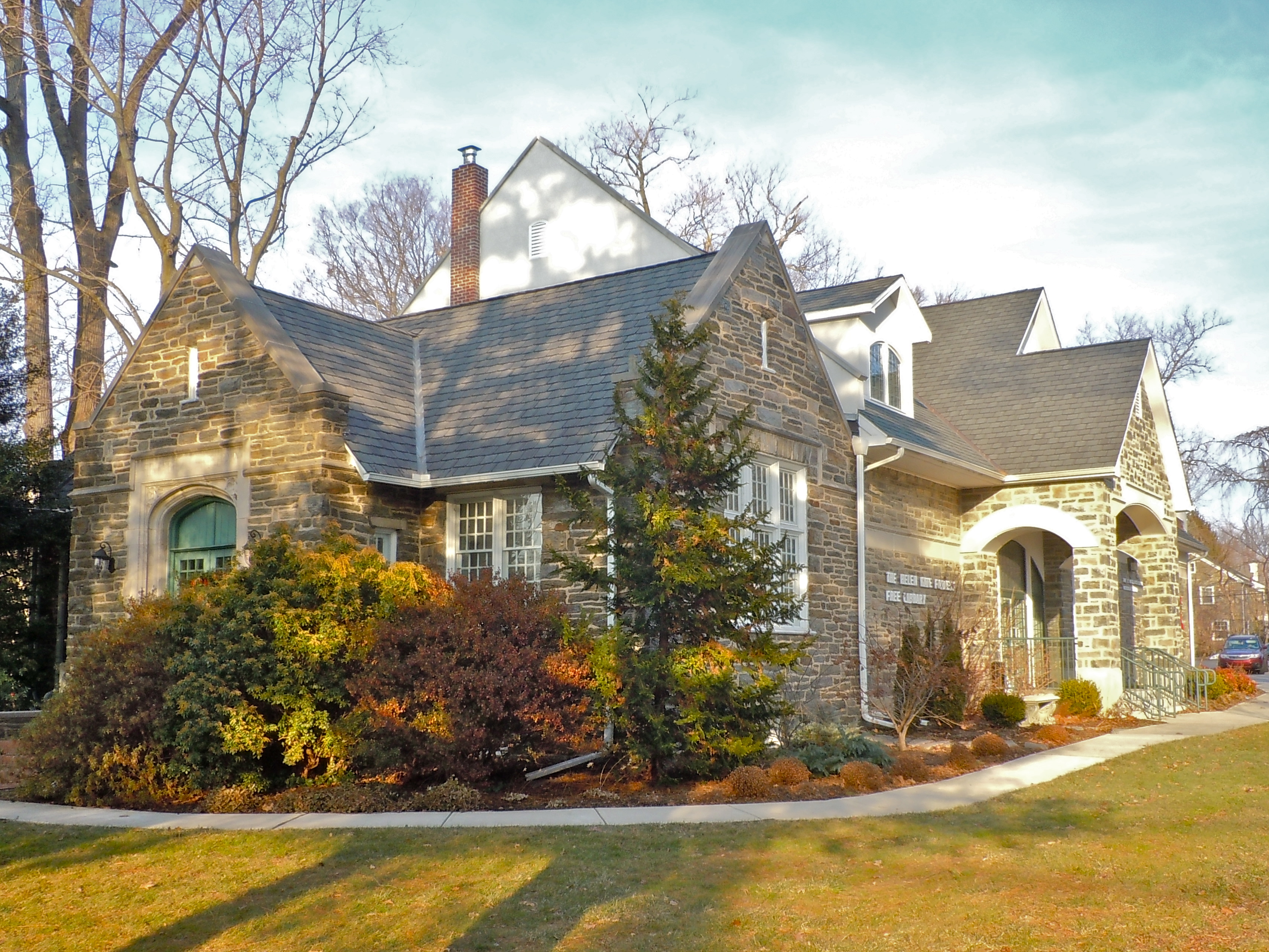 Helen Kate Furness Library in Wallingford, Pennsylvania, Delaware County. Named for the sister-in-law of (Frank Furness, architect and Medal of Honor Winner).